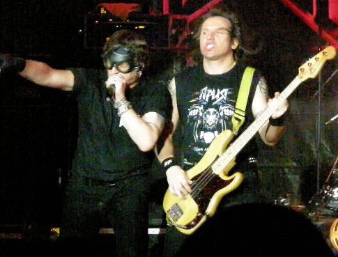 Heavy metal band Aria performing a show in Vladivostok, Russia